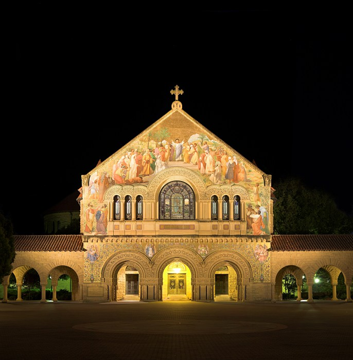 A high resolution 20 image composite of the Stanford Memorial Church at night. By using varying shutter speeds for each row of images, I was able to capture detail in the mosiac art, a flaw most single photographs of the church at night exhibit. By Michael Connor from